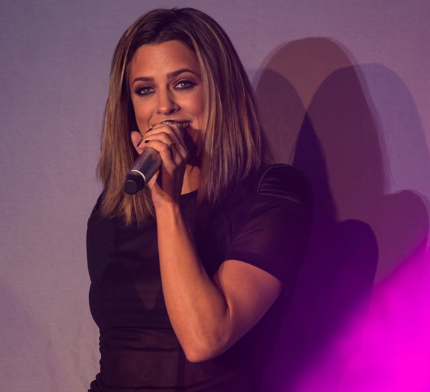 German Pop-Schlager-Singer Vanessa Mai during her "Für Dich Tour" at Alter Schlachthof, Dresden, Germany (24th October 2016).